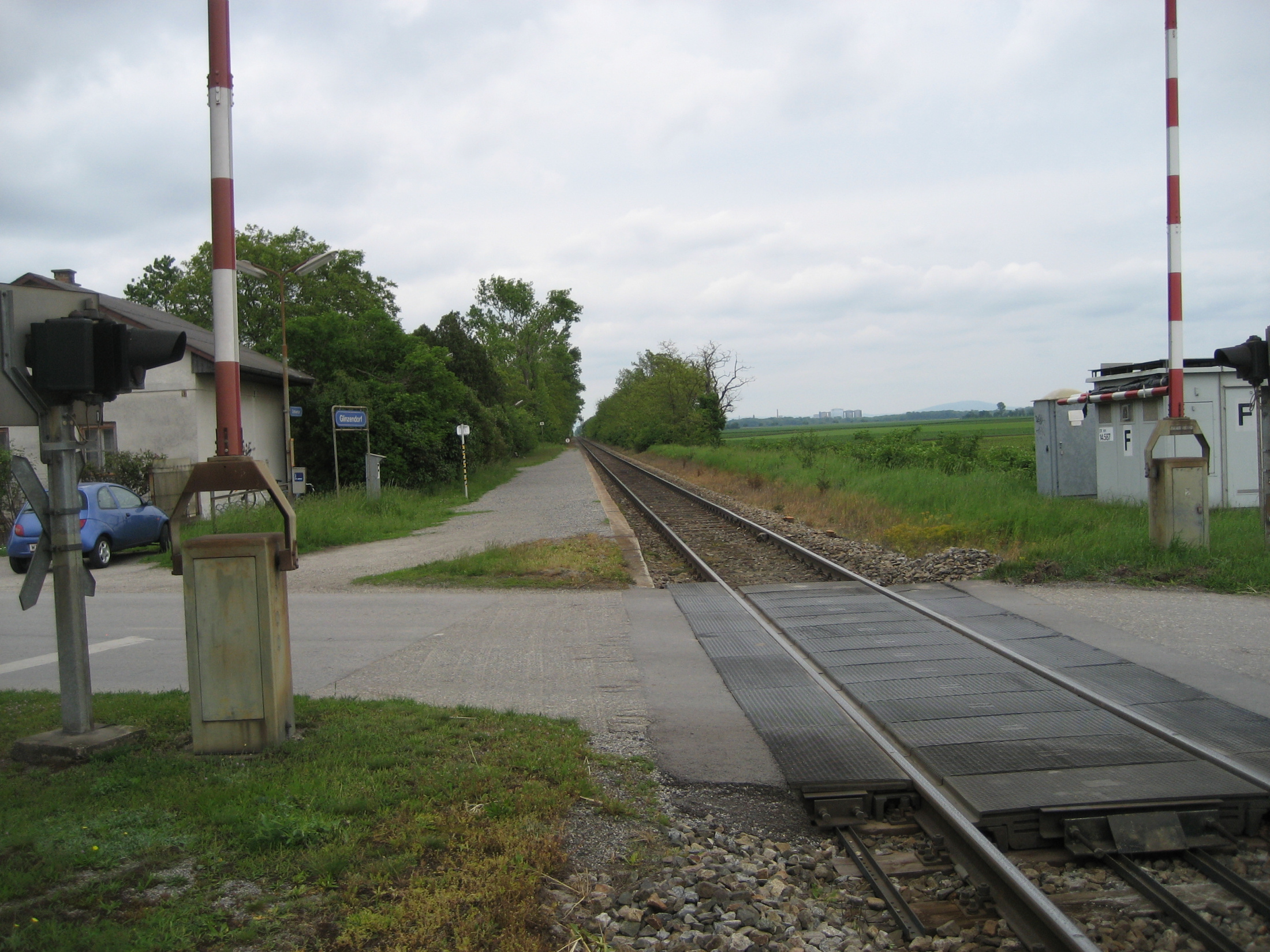 Train station Glinzendorf in Lower Austria